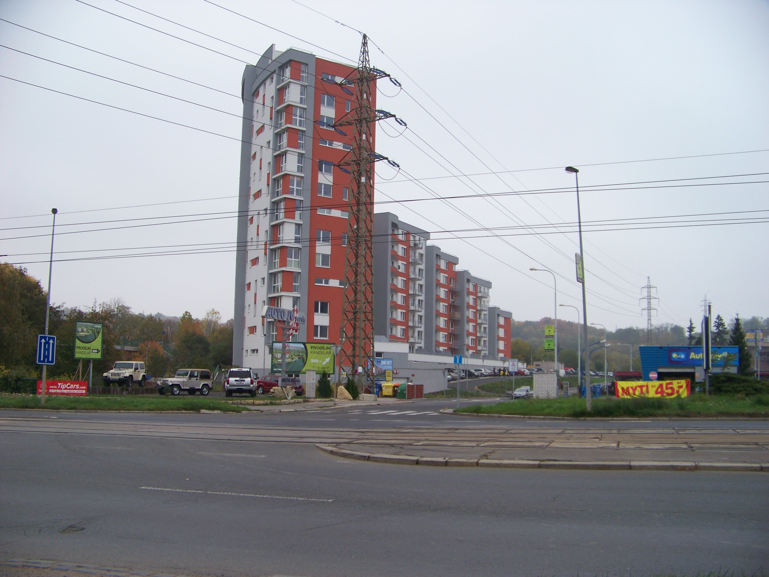 Prague-Hloubětín, the Czech Republic. Nademlejnská 1069/24+22+20, seen from Poděbradská street.